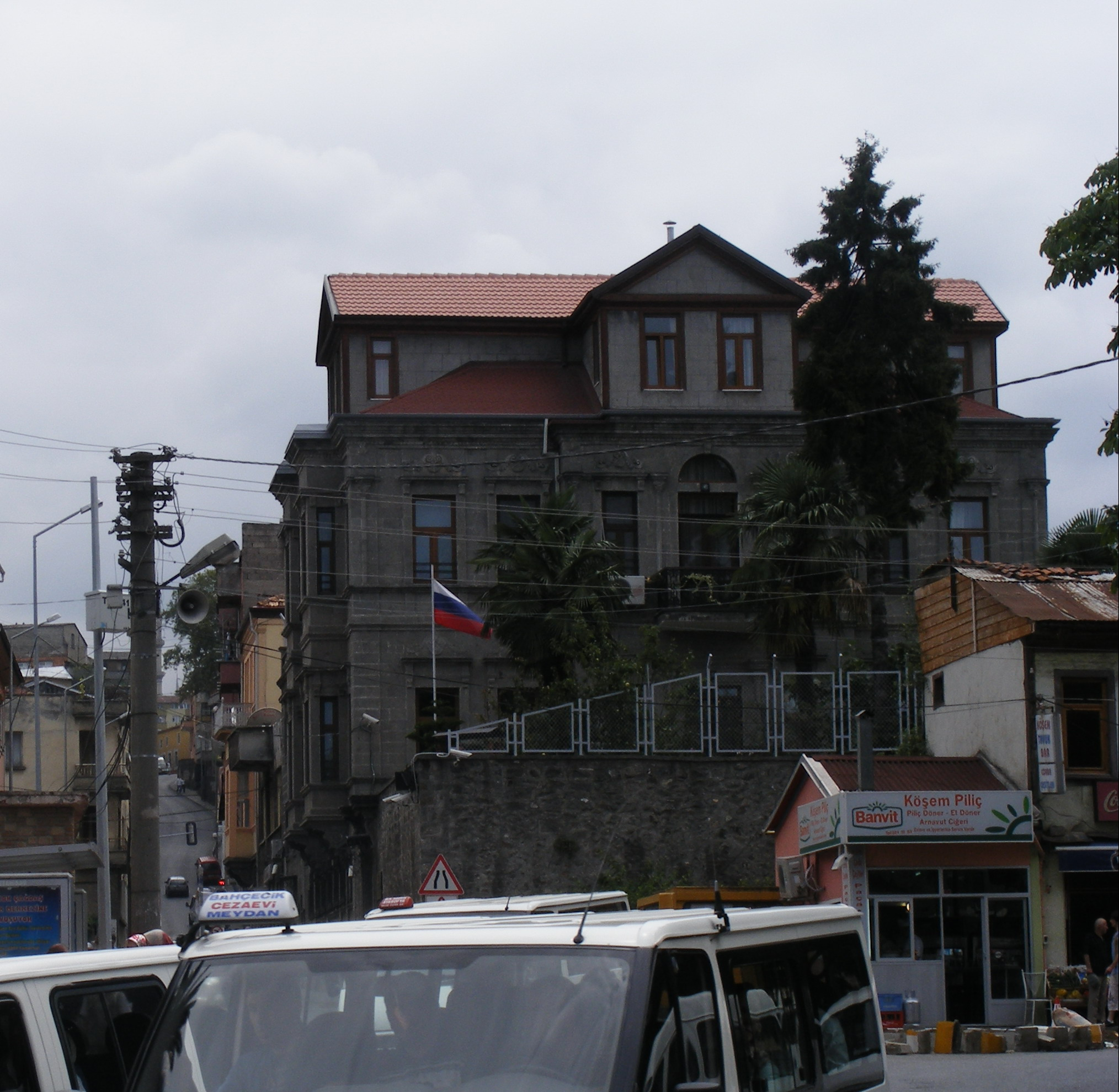 Russian consulate in Trabzon